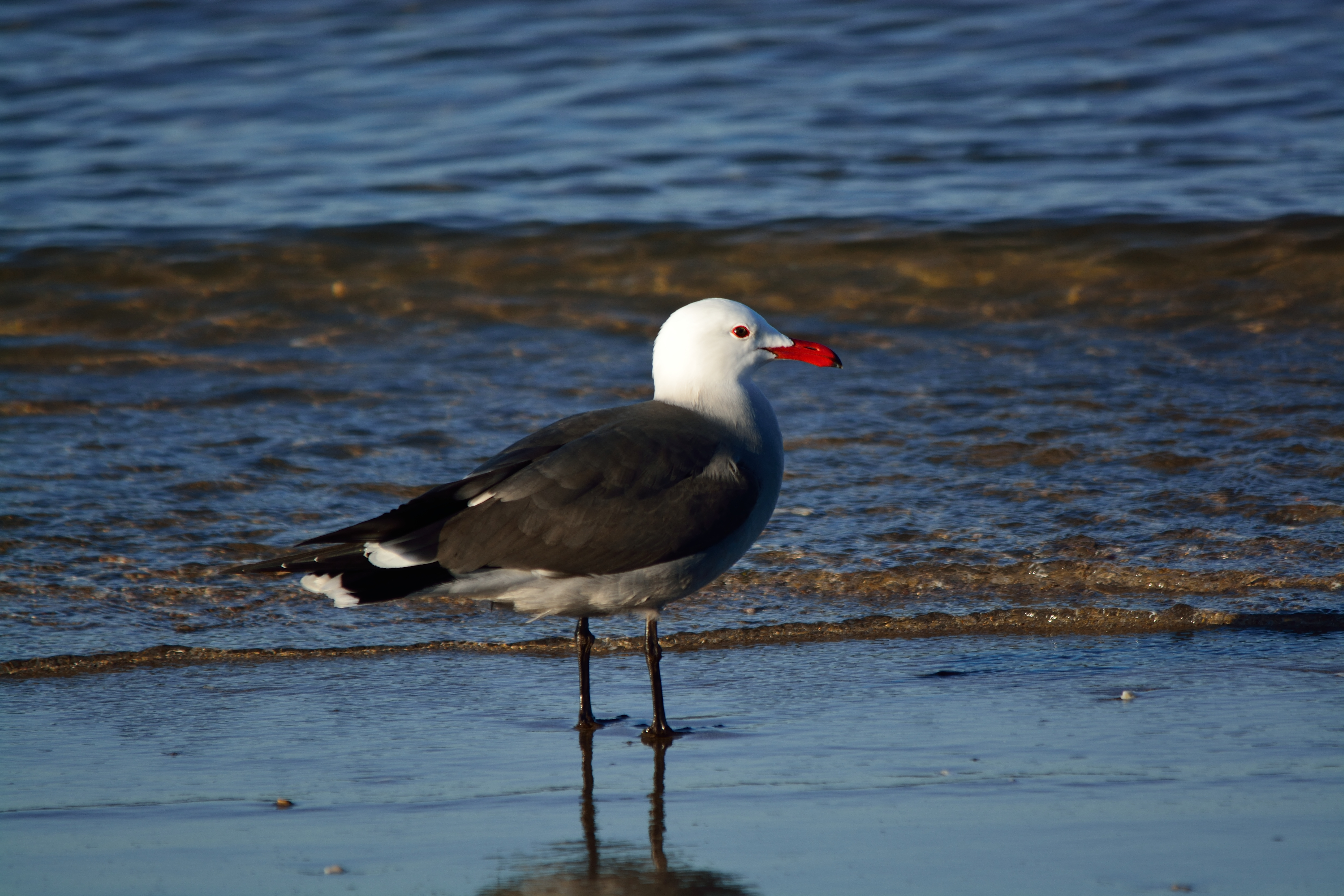 Larus heermanni in Bahía de Kino, Sonora, Mexico